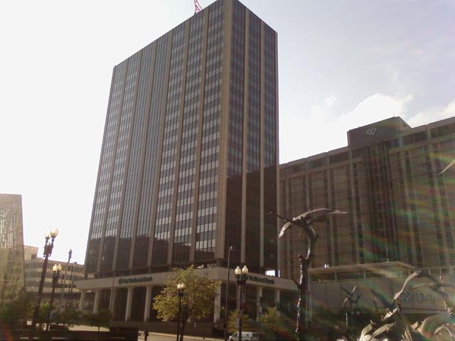 First National Center in Omaha, NE